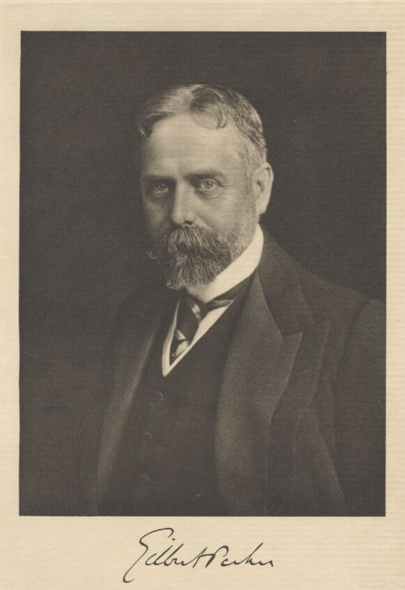 Photograph of Sir Gilbert Parker